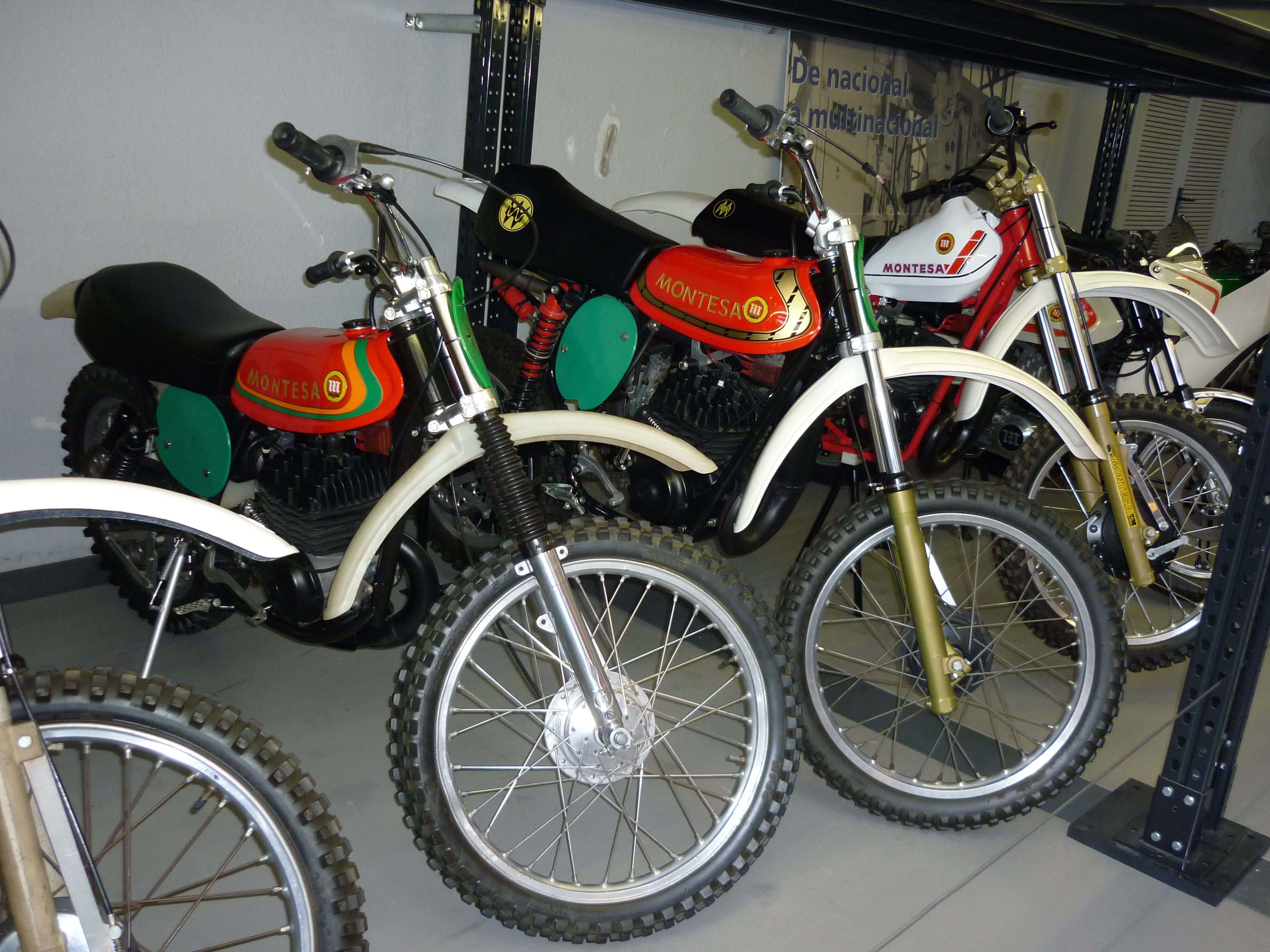 Montesa Cappra 250 VA from 1975 (left) and 250 VB from 1978 (right)